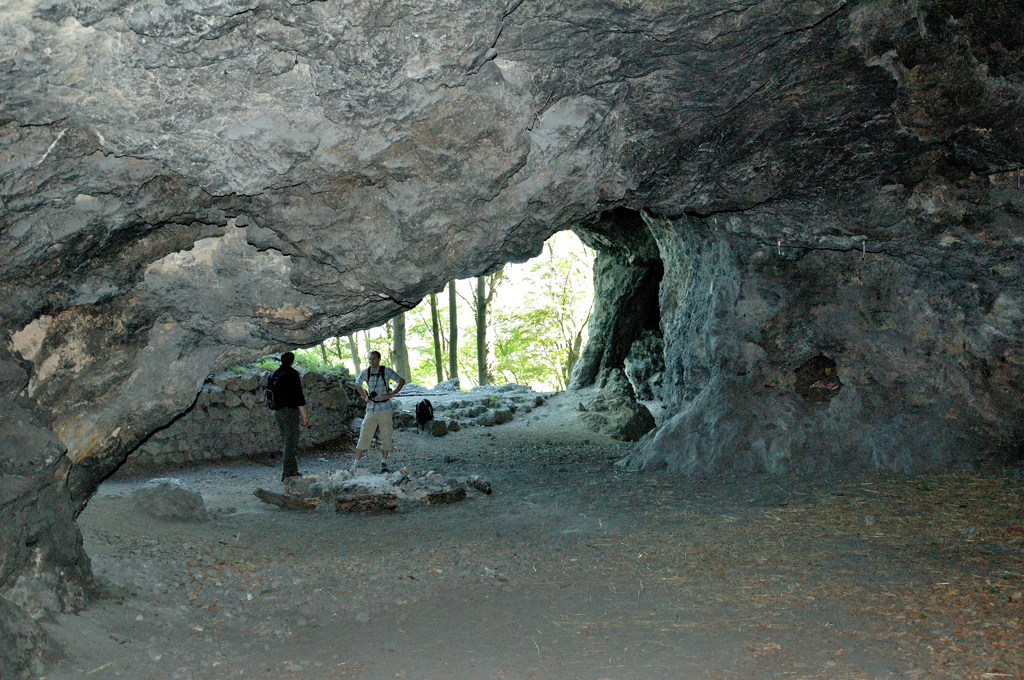 Cave Arnsteinhöhle